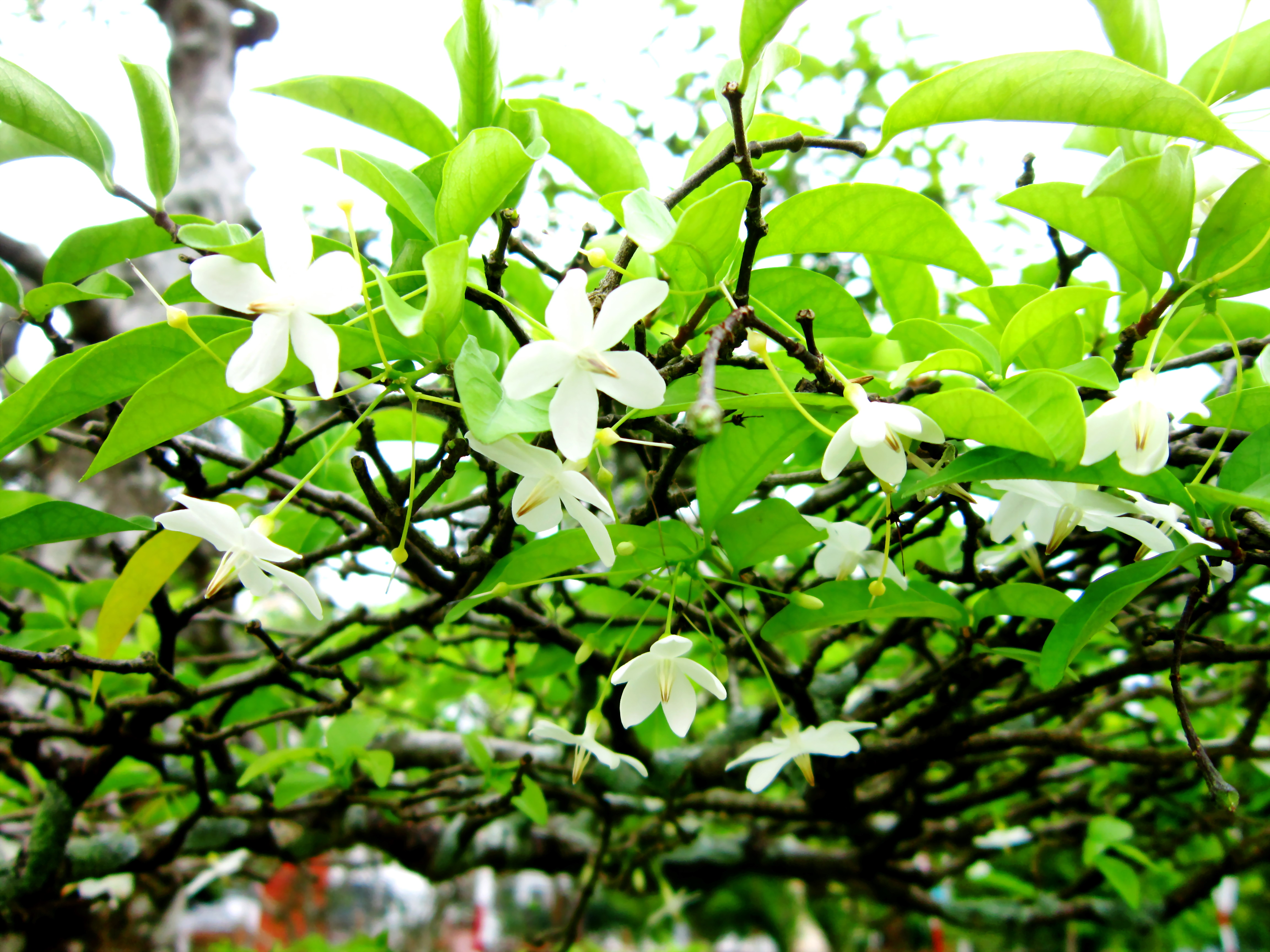 Water Jasmine (Wrightia religiosa)